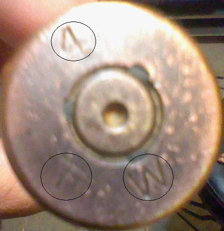 Headstamp of a .50 caliber bullet casing, made by the Twin Cities Ordnance Plant in 1944. Recovered from the Sahuarita Bombing and Gunnery Range. ("TW" = Twin Cities Ordnance Plant - Minneapolis, Minnesota, "4" = 1944)